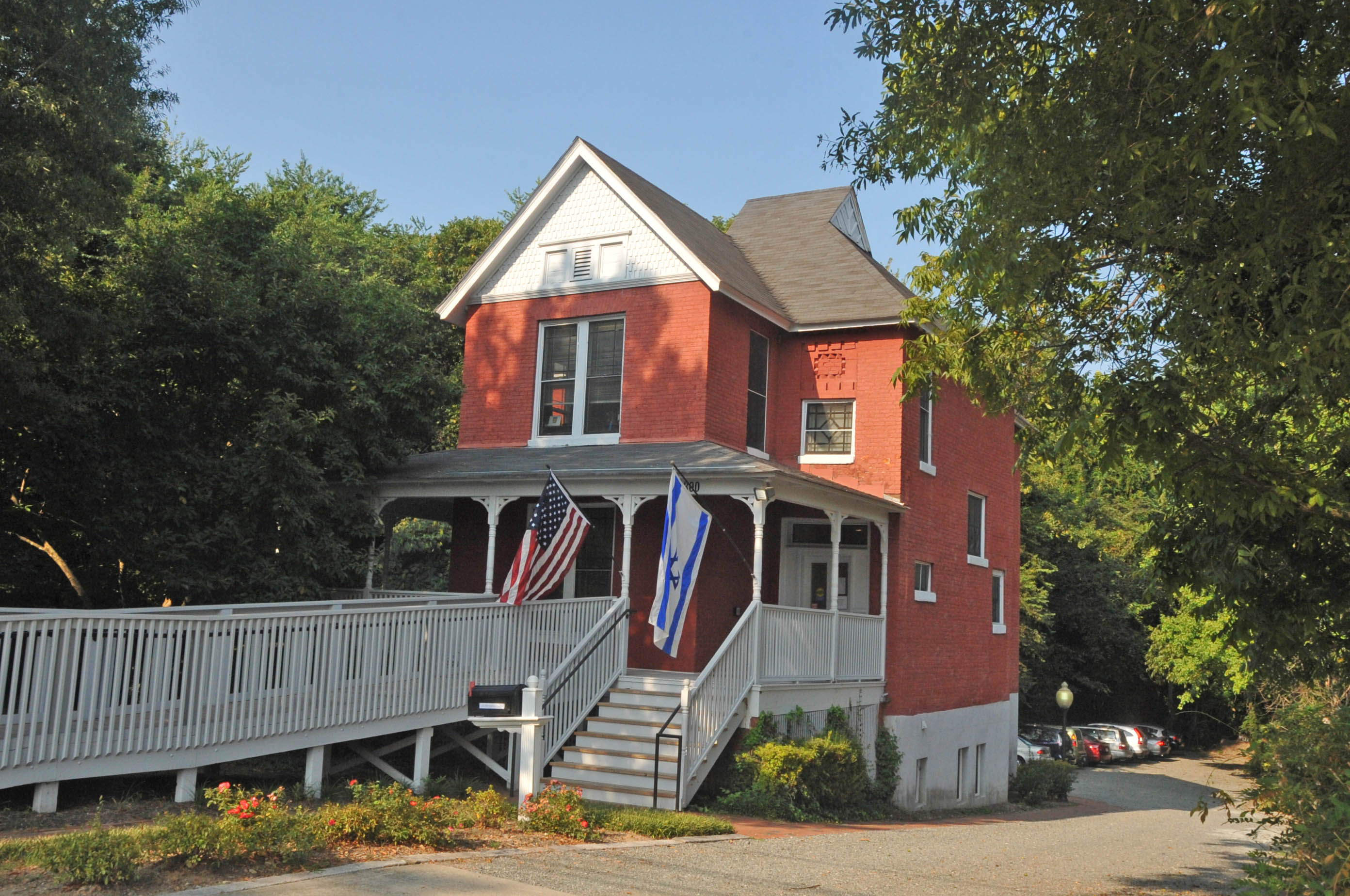 1889 VICTORIAN QUEEN ANNE; BLACKNALL WAS FROM A PROMINENT DURHAM FAMILY AND WAS OWNER OF DURHAM EARLIEST PHARMACY